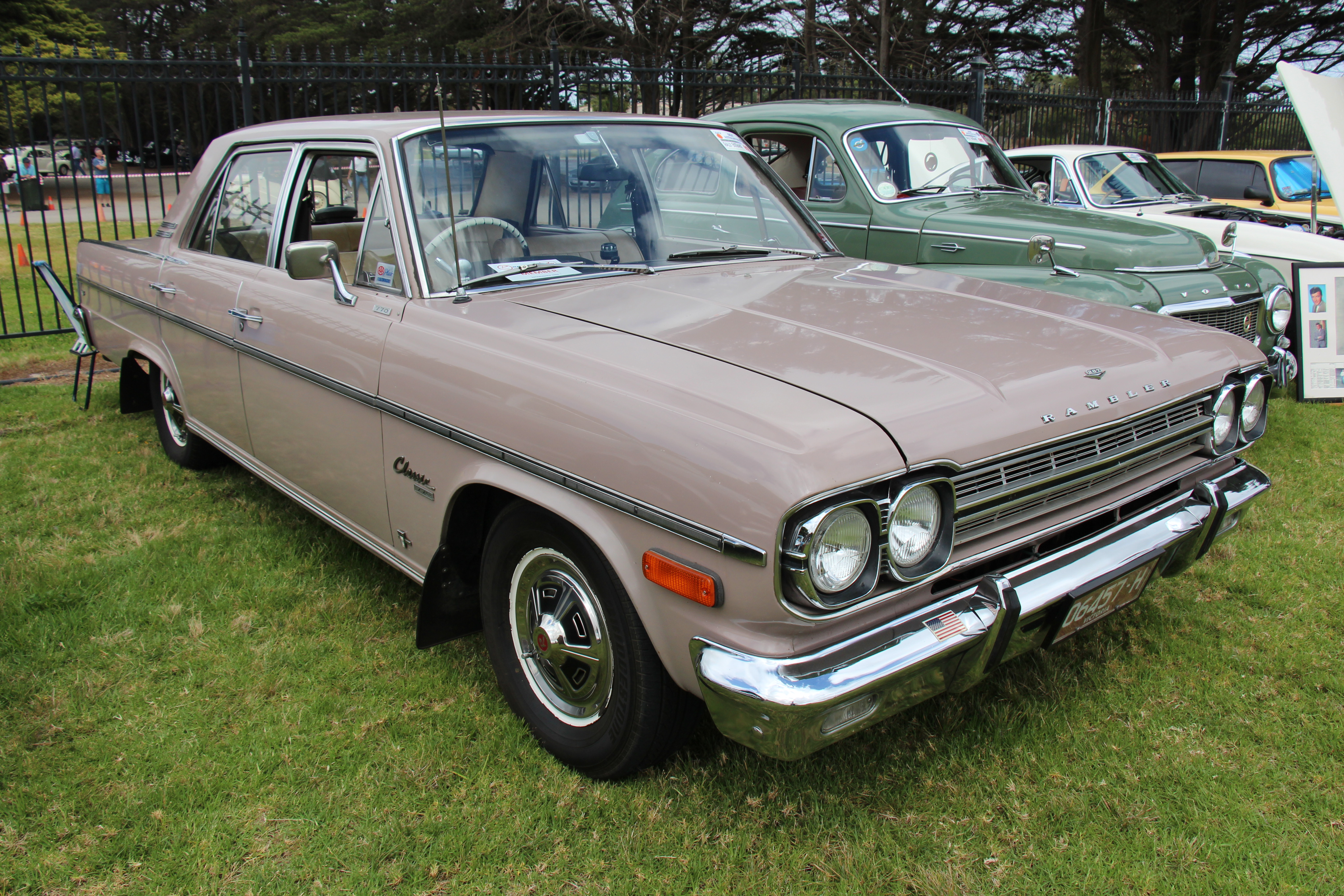 The Classic was built by AMC from 1961-66. AMC cars were assembled in Australia from 1954-78, all marketed as Ramblers. 1963 was the start of the 2nd generation of Classics, completely redesigned. The car was restyled in 1965, available in 550 (199 cu in 6 cyl), 660 or 770 (both with 232 cu in 6 cyl) the 287 and 327 cu in V8s were an option. 2 door sedan, hardtop or convertible or 4 door sedan and wagon. 1966 saw minor trim changes and the 660 was dropped leaving just the 550 and 770. Top of the line 2 door hardtop was the Rambler Rebel. 3012 Classics were built in Australia